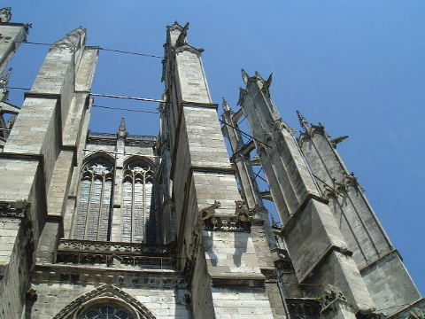 Image, photograph, own work